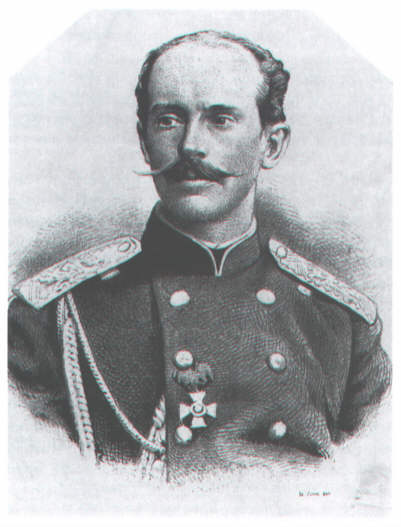 Prince Nikolaï Maximilianovitch (1843-1891), duke of Leuchtenberg